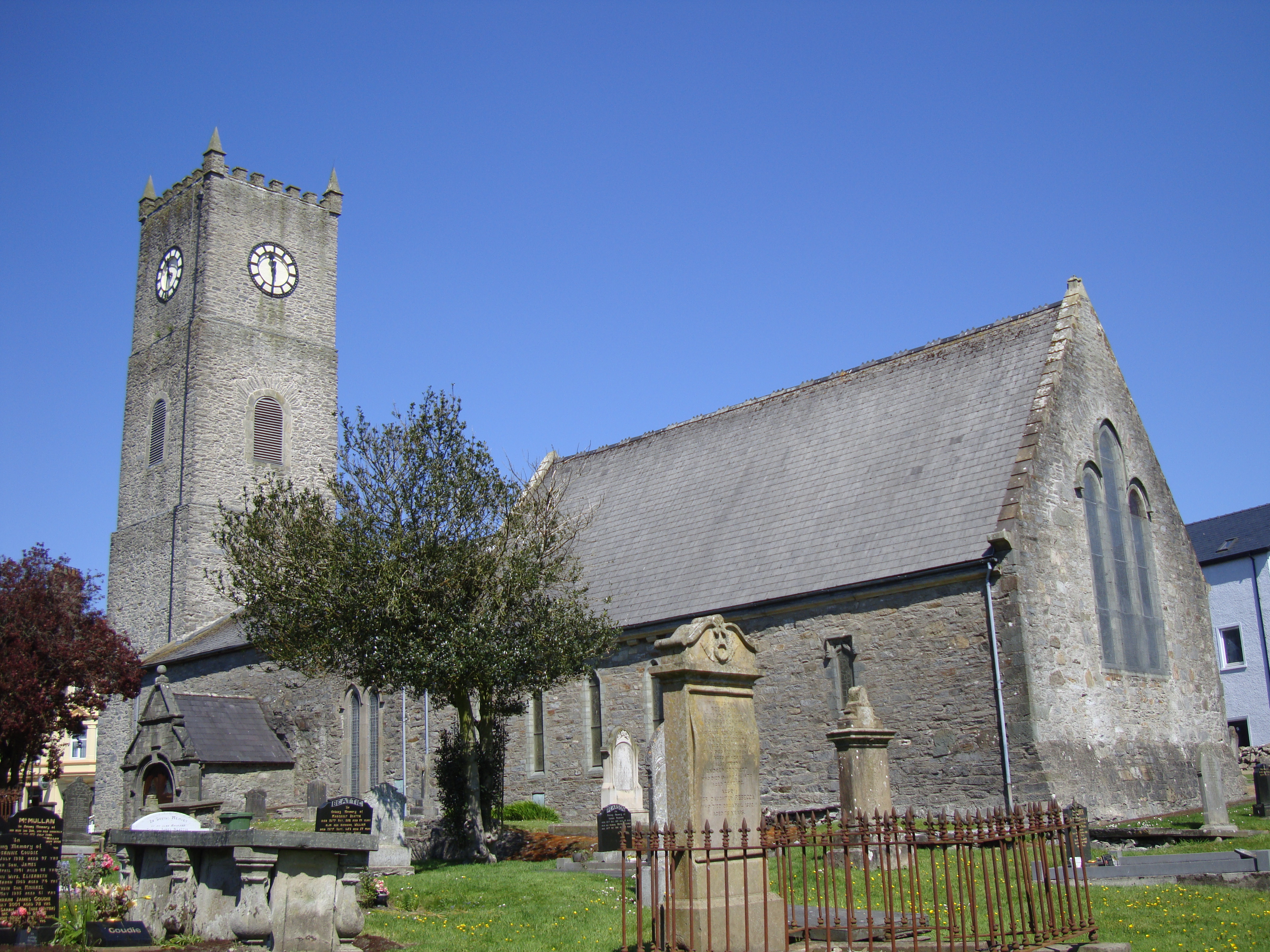 Photograph of St Eunan's Cathedral, Raphoe, Co. Donegal, Ireland